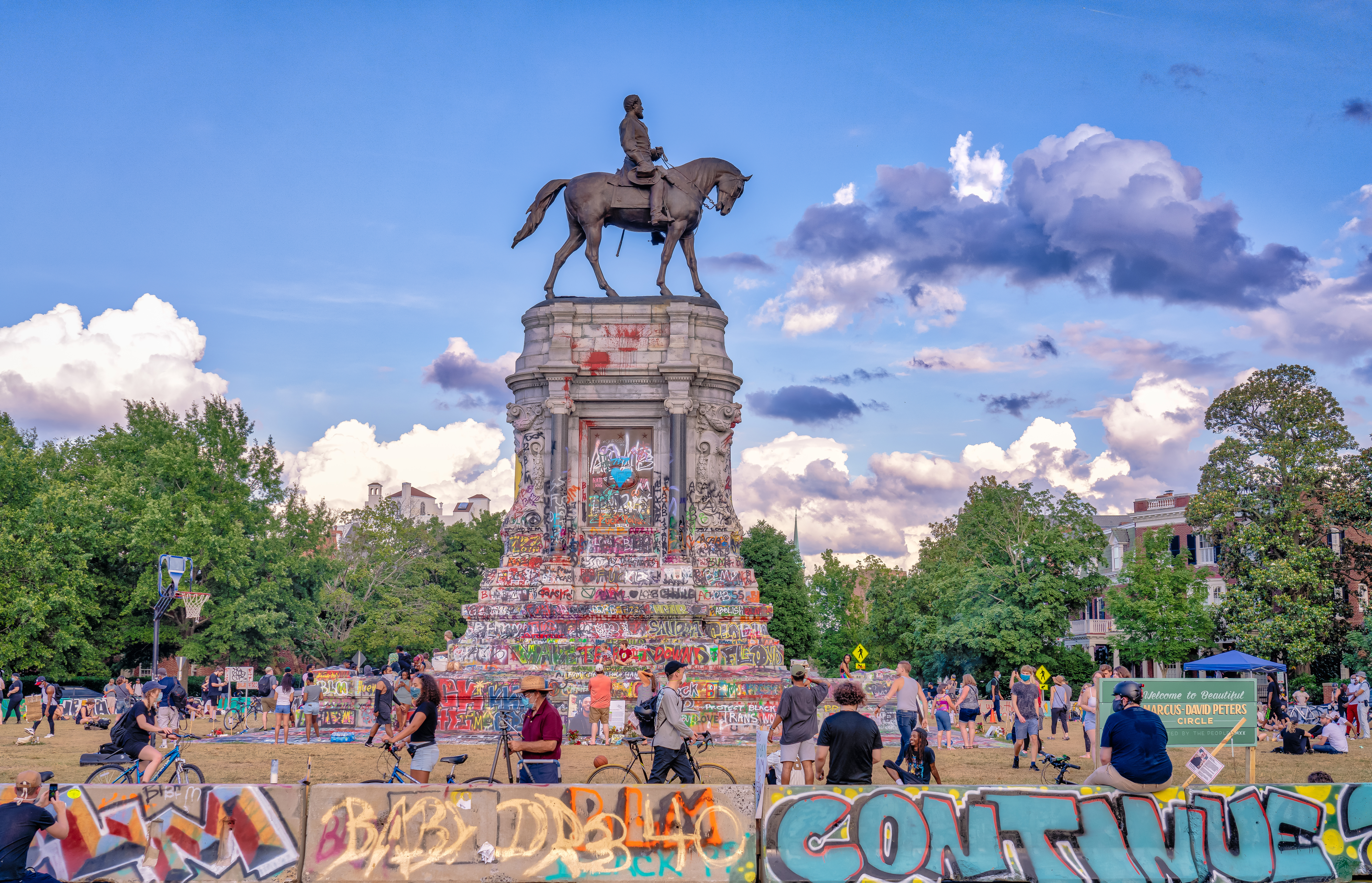 RVA 2020 MDPC